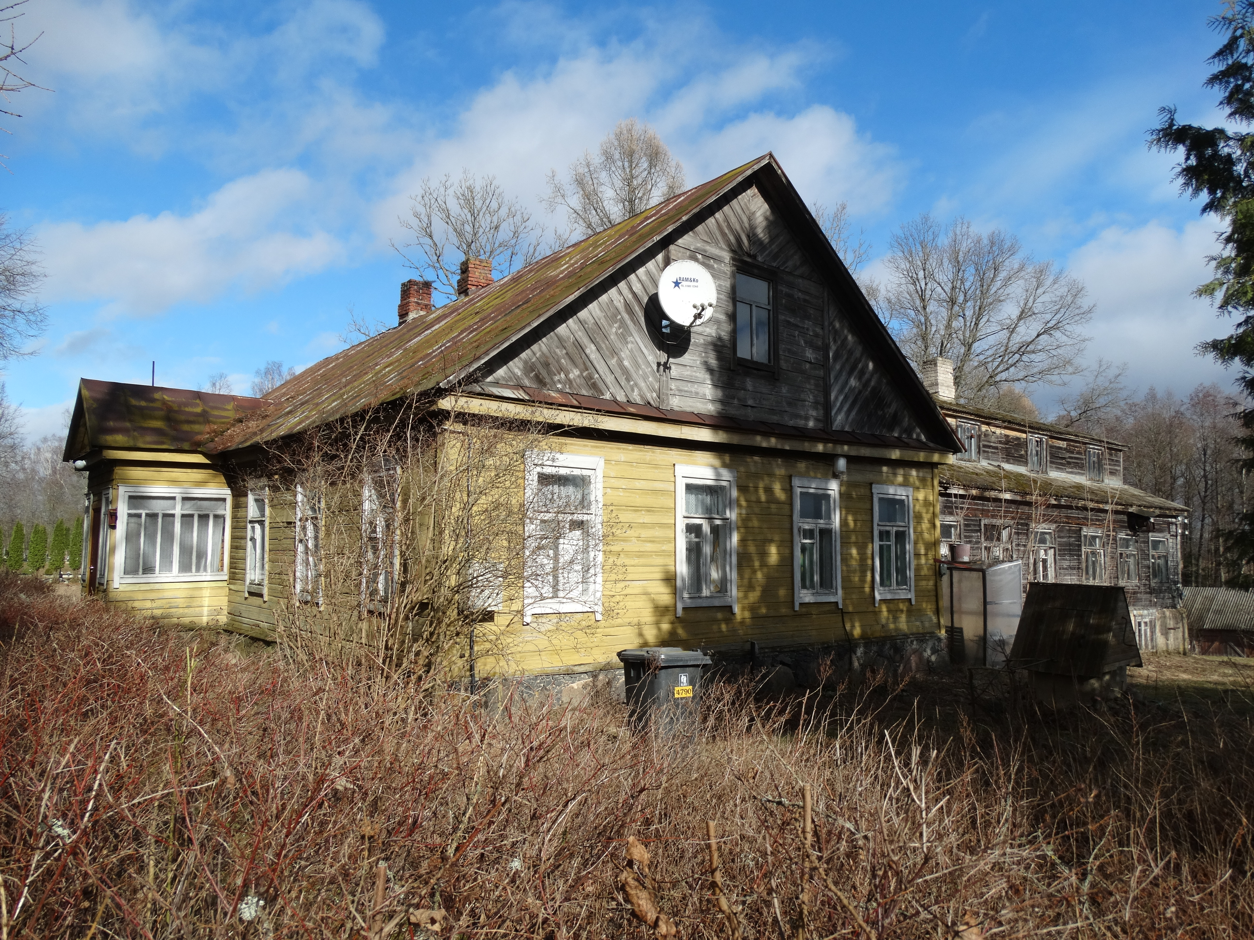 Former school in Kvykliai, Utena district, Lithuania